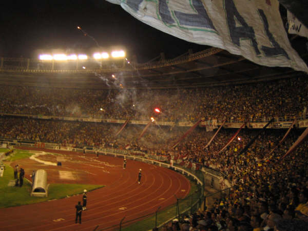 Metropolitano Stadium in Barranquilla, biggest stadium in Colombia and one of the biggest soccer stadiums in the Americas. Seats 60000.